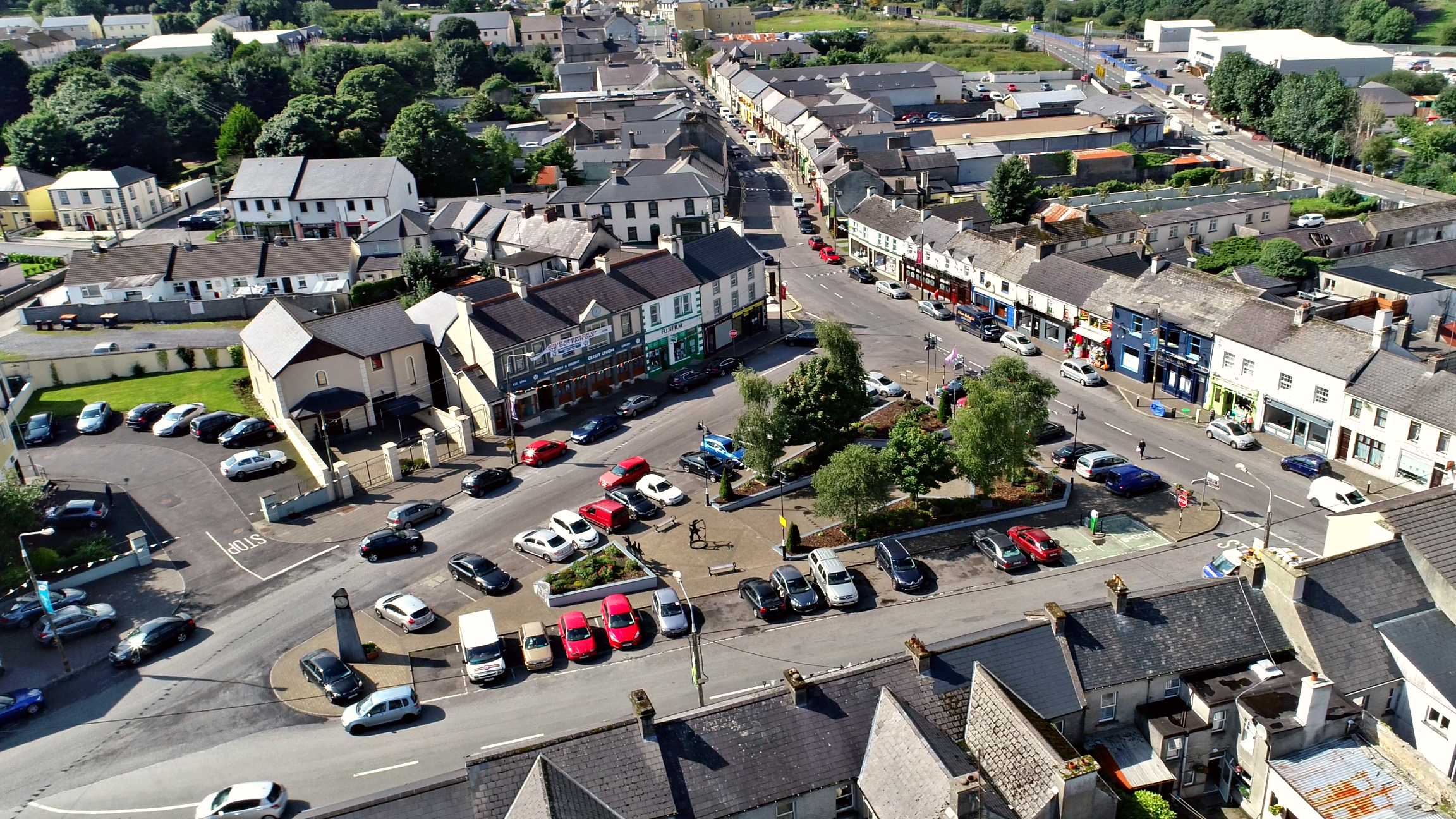 Tubbercurry Aerial Photo